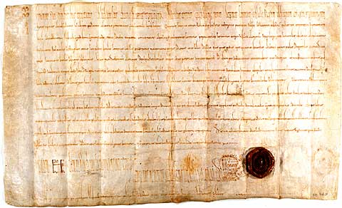 The document by which Louis the German founded the Fraumünster in Zürich for his daughter Hildegard on July 21, 853. The document defined the reichsunmittelbarkeit of the new Benedictine abbey